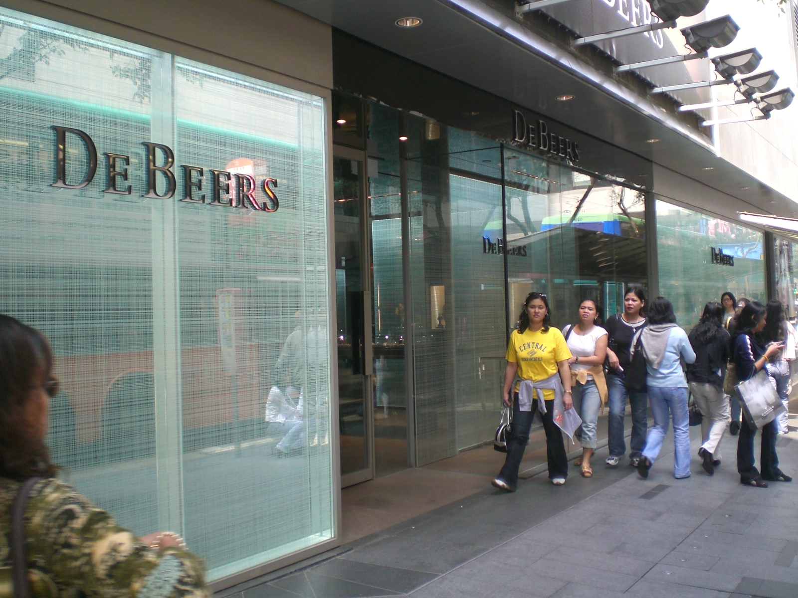 De Beers at The Landmark, Central, Hong Kong